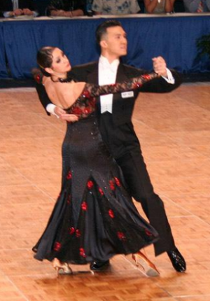 Victor Fung and Anna Mikhed dancing a ballroom tango. The couple, dancing for the USA, came third in the World Professional Standard Championship 2009. Photo taken in 2006 by Porfirio Landeros, Kwixite Media, in San Diego, California.